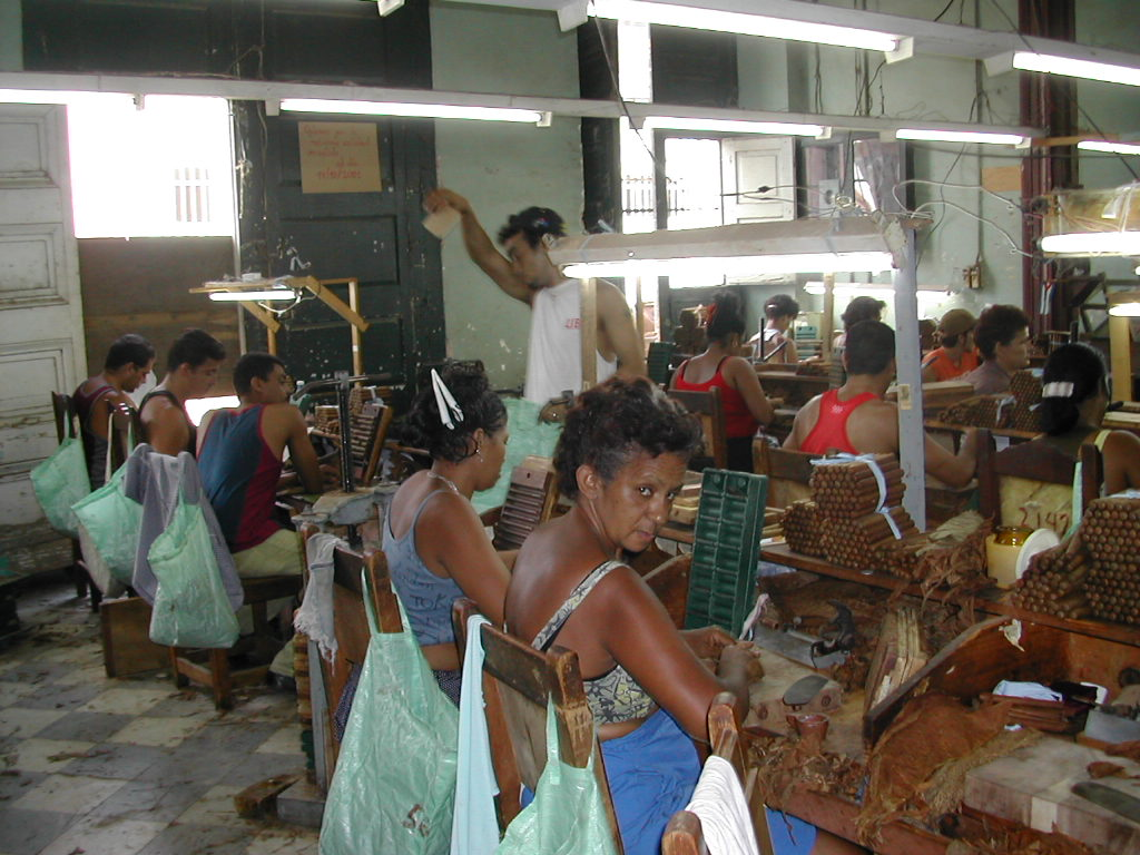 People at work in a cigar factory in Trinidad, Cuba.